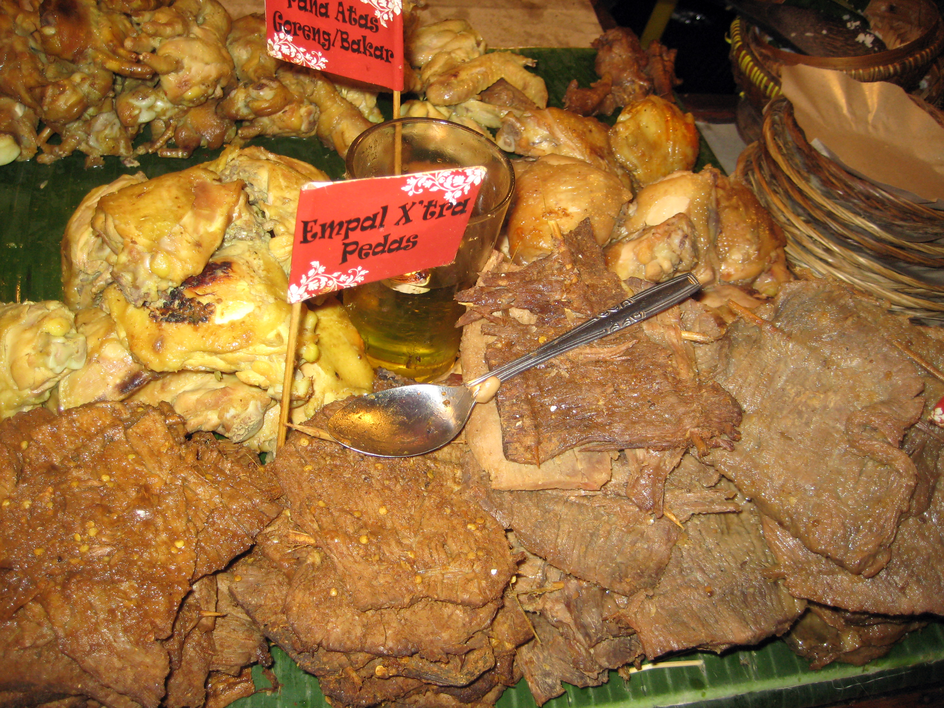 Empal Daging, spicy beef